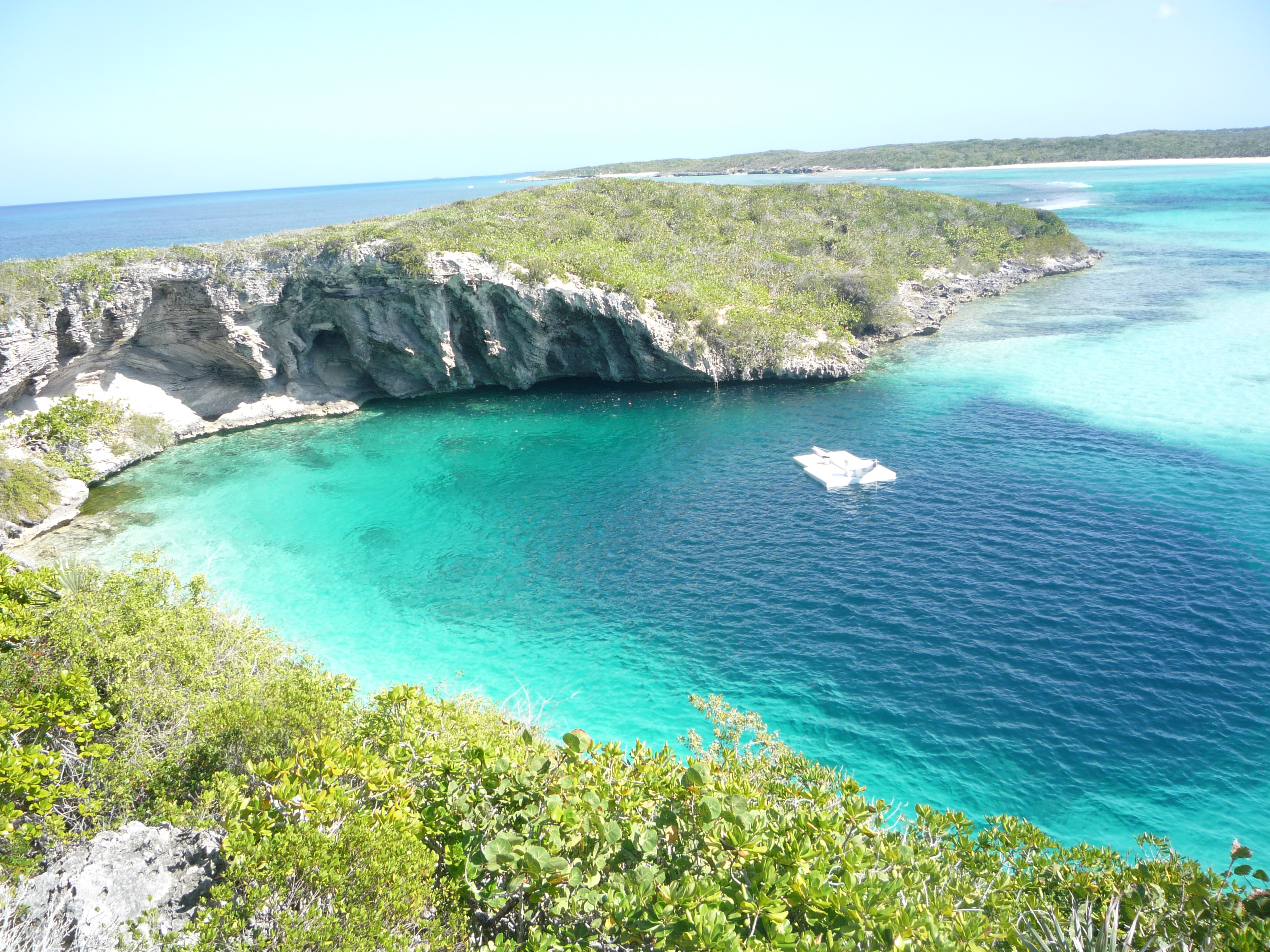 Dean's Blue Hole is the world's deepest known blue hole with seawater. It plunges 202 meters (663 ft) in a bay west of Clarence Town on Long Island, Bahamas.